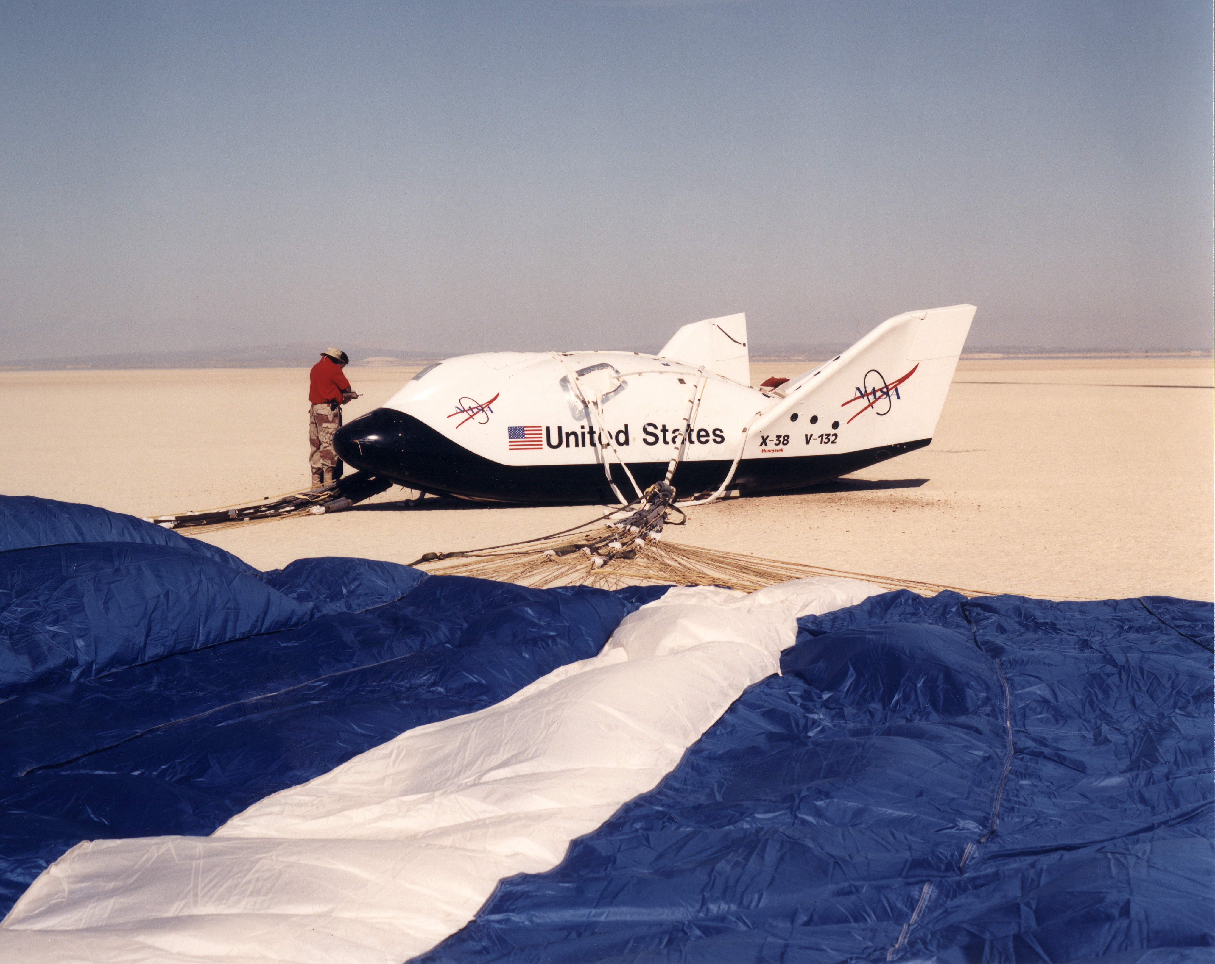 The X-38's blue and white parafoil spreads out in front of the research vehicle as it sits on a lakebed near the Dryden Flight Research Center after a March 2000 test flight. The X-38 Crew Return Vehicle (CRV) research project is designed to develop the technology for a prototype emergency crew return vehicle, or lifeboat, for the International Space Station.